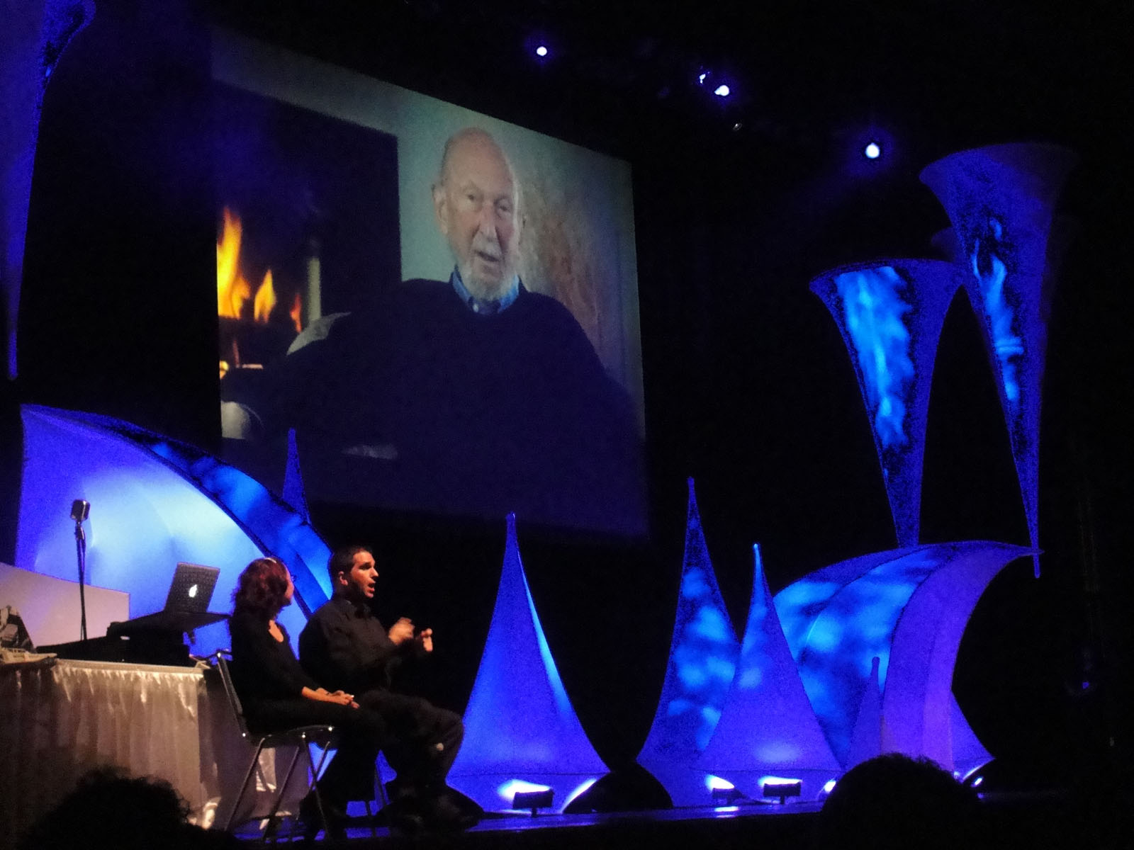 Star Wars Celebration V - Empire Strikes Back director Irvin Kershner sends a message to the Celebration V crowd